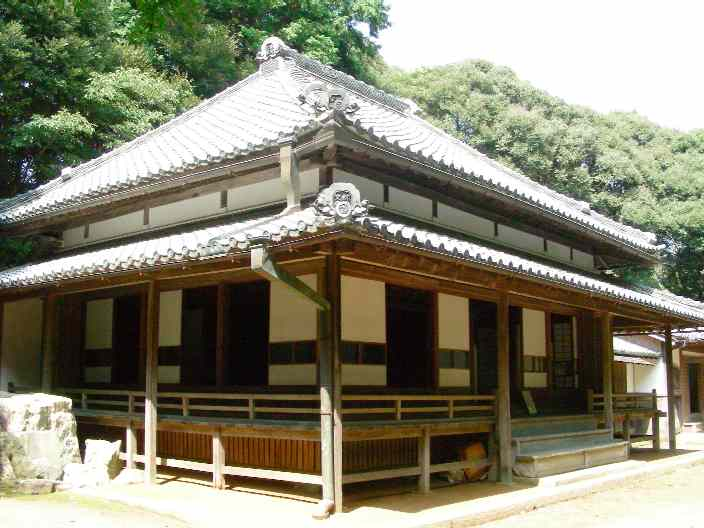 Hayasizaki-bunko was established as "Naiku-bunko" (Naiku library) in 1686.